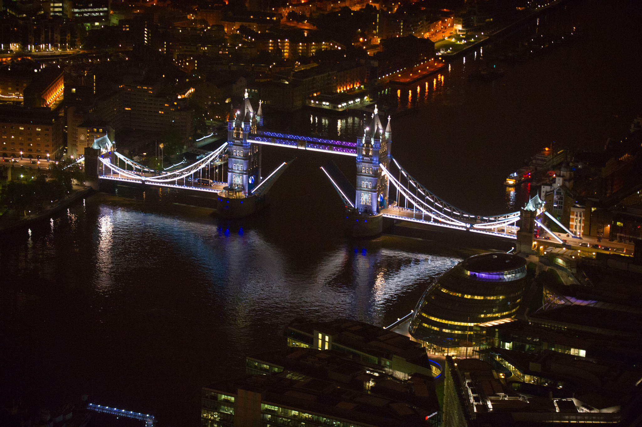 Aerial view, white lights., bridge open.